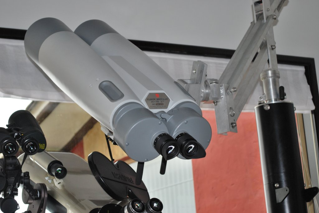 Giant Fujinon 25 x 150 binoculars